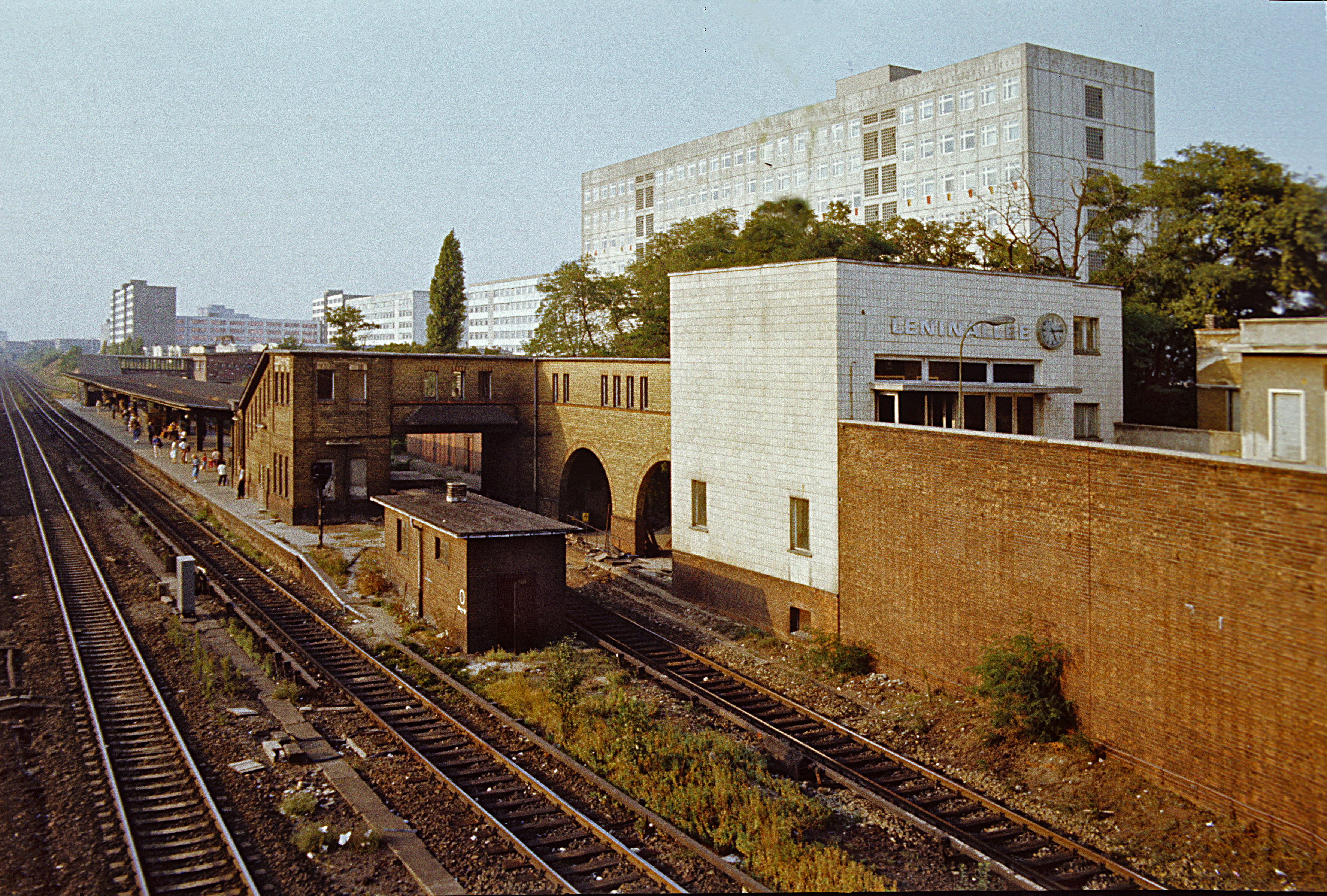 Berlin S-Bahn station Leninallee (today Landsberger Allee), Berlin, Germany